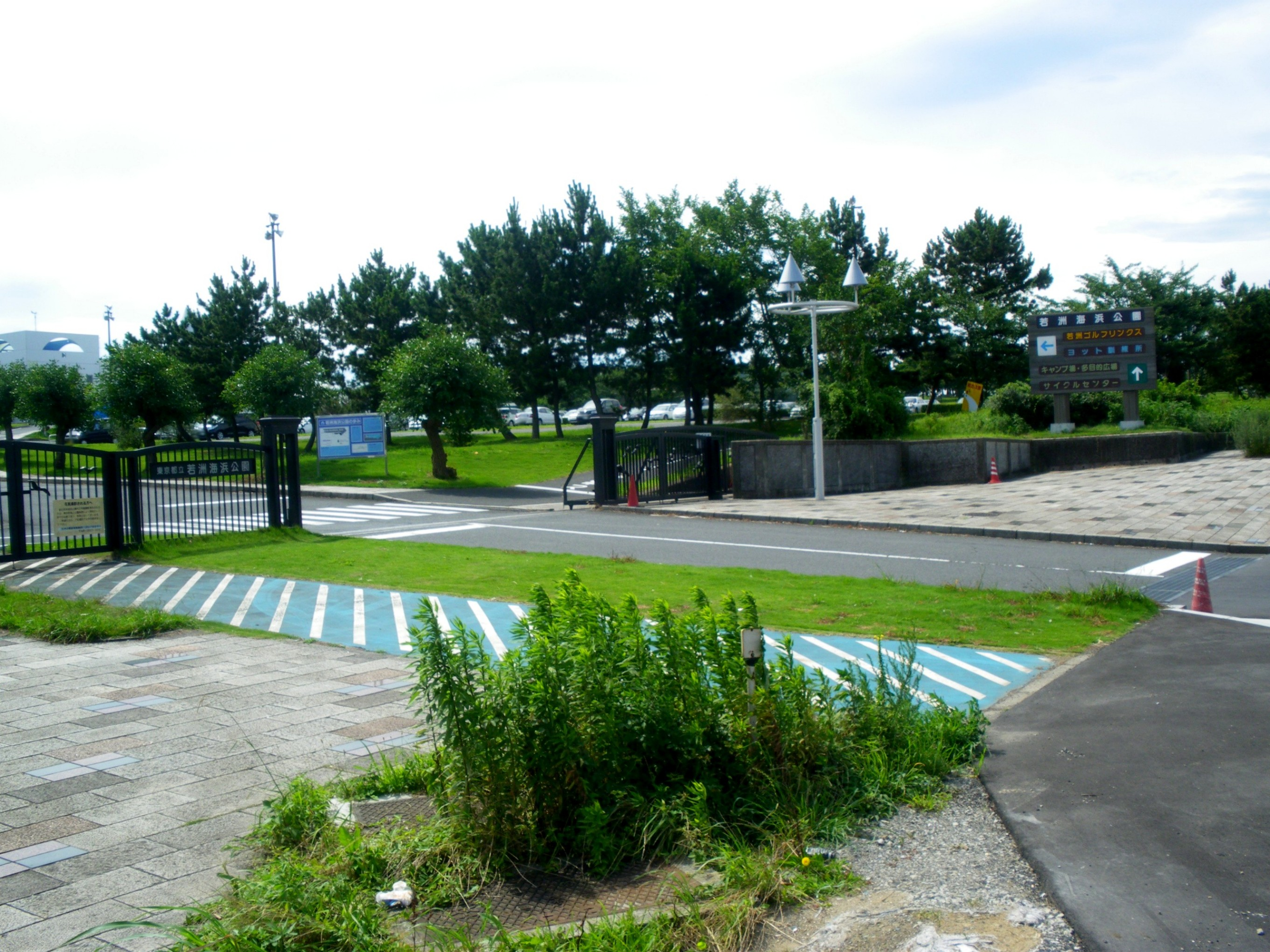 the entrance of Wakasu Kaihin Park(Wakasu,Koto,Tokyo)